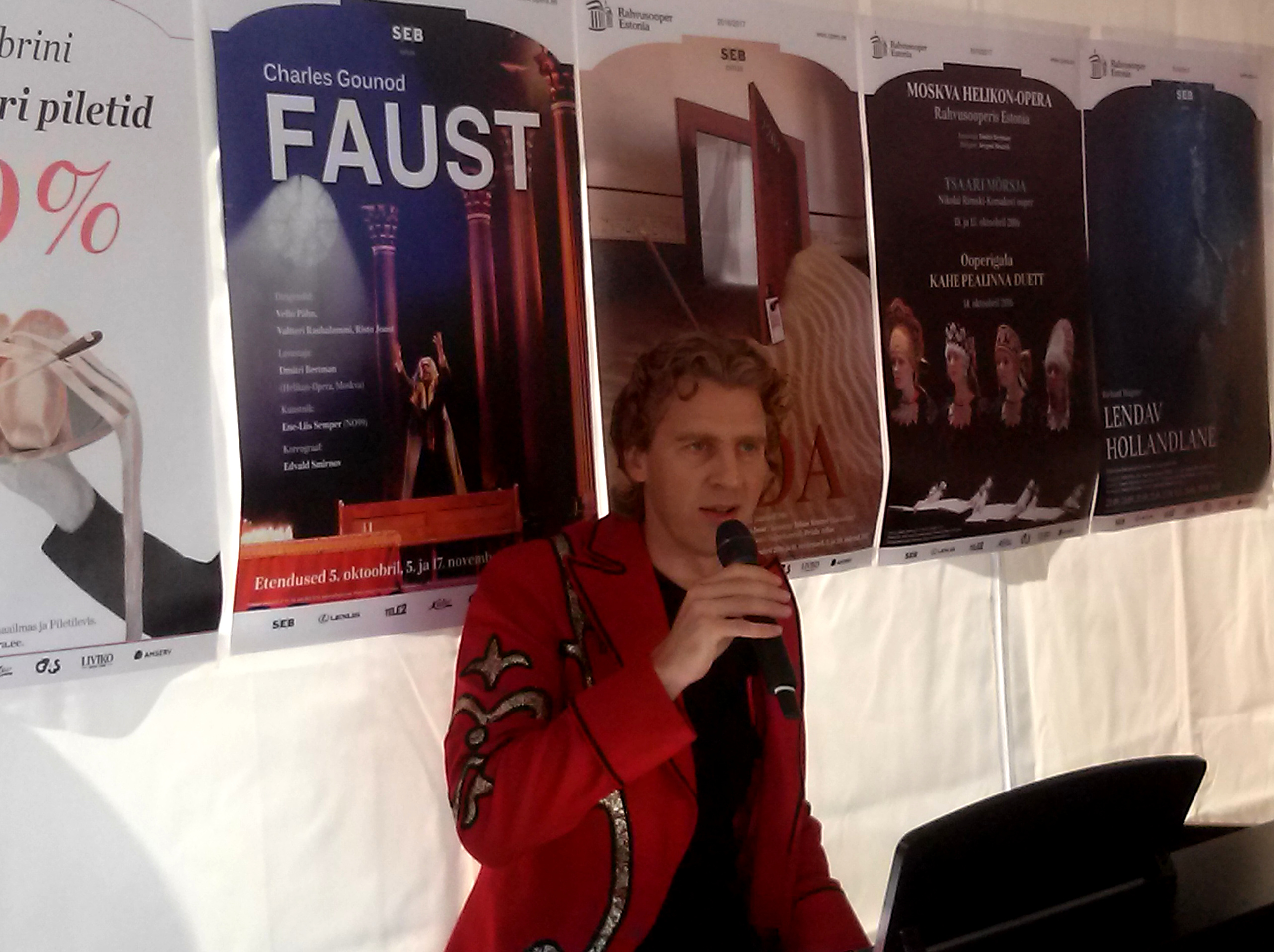 Tallinn, Estonia